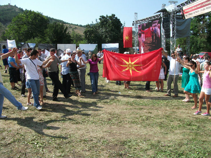 Cultural festival of Arman/Macedonians; "Aromanians", "Vlachs". The flag is used by the Aromanians in the Republic of Macedonia, and is a mix of the present Macedonian flag and the first flag with the Vergina sun